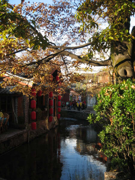 The street of Lijiang, in Yunnan province, China.